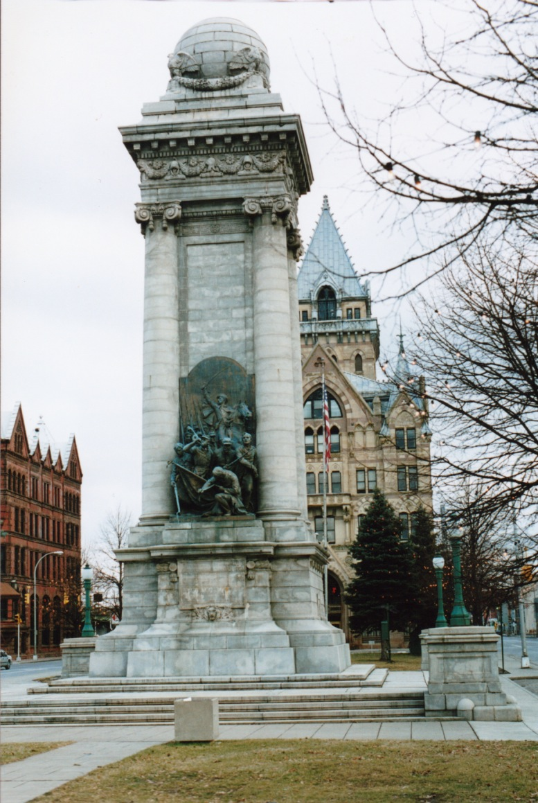 Soldiers & Sailors memorial in Syracuse NY, USA 1910